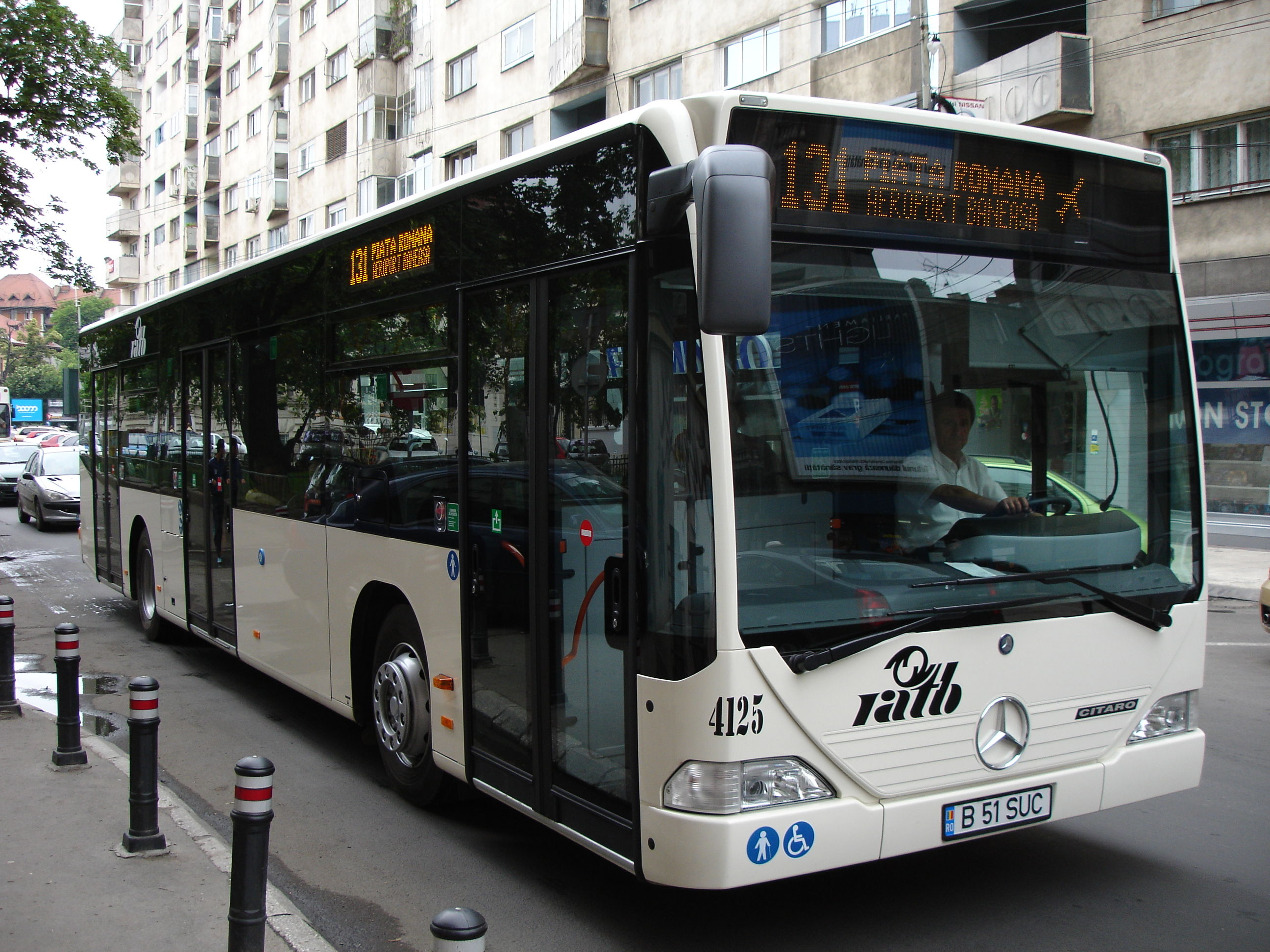 City bus in Bucharest, Romania (Mercedes Citaro type)